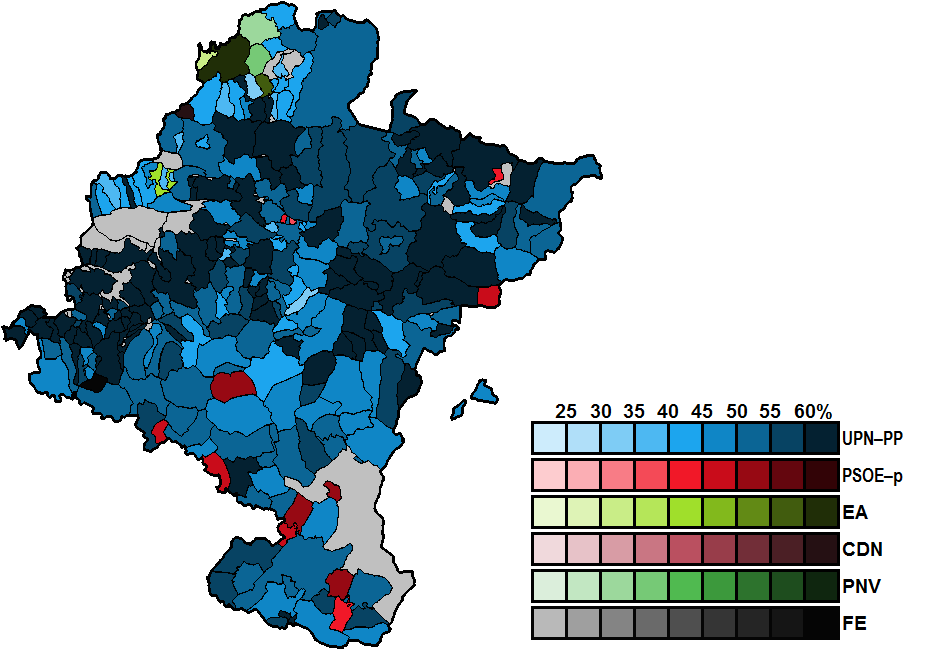 Most-voted party in Navarre municipalities, showing vote share obtained, in the Spanish general election, 2000.